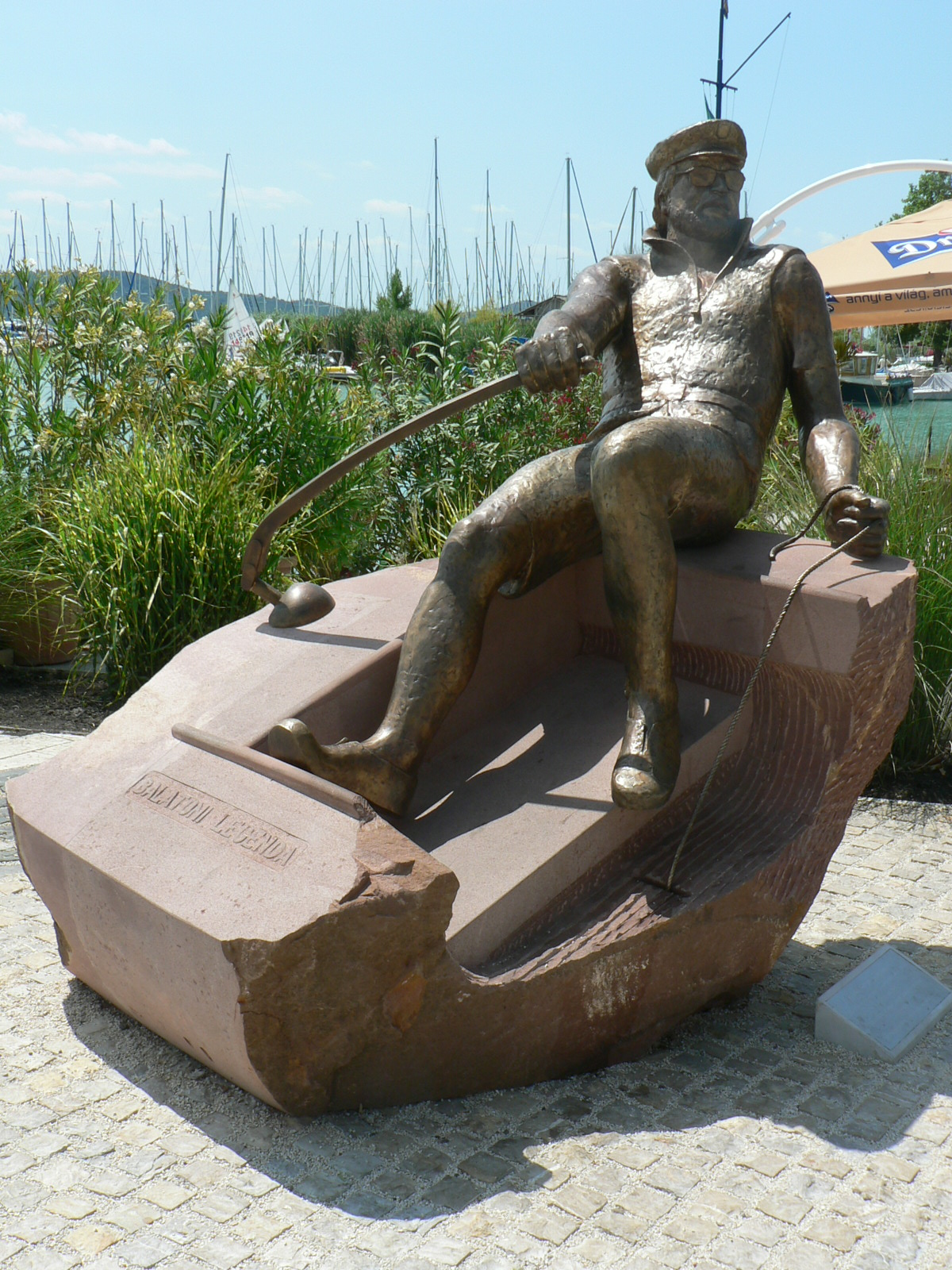 Bujtor István szobra Balatonfüreden